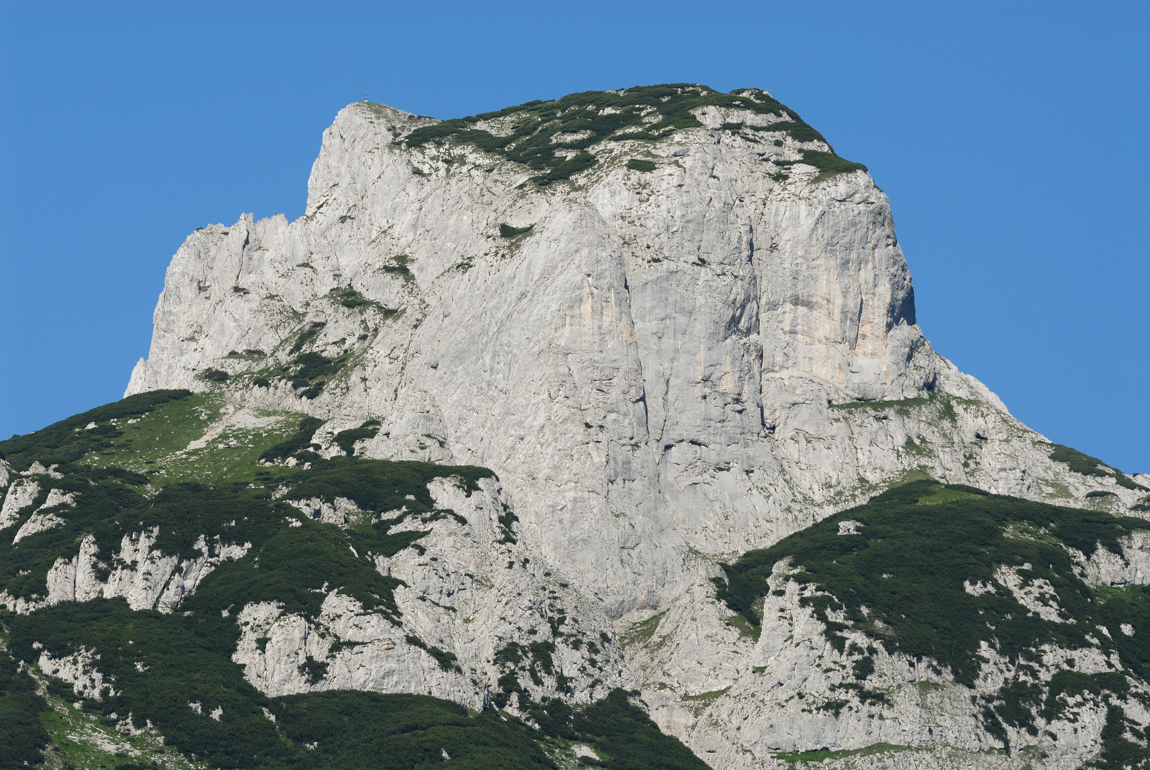 West view of Angerstein (2100 m), Gosaukamm/Dachstein mountains, seen from Kopfberg, Annaberg-Lungötz.